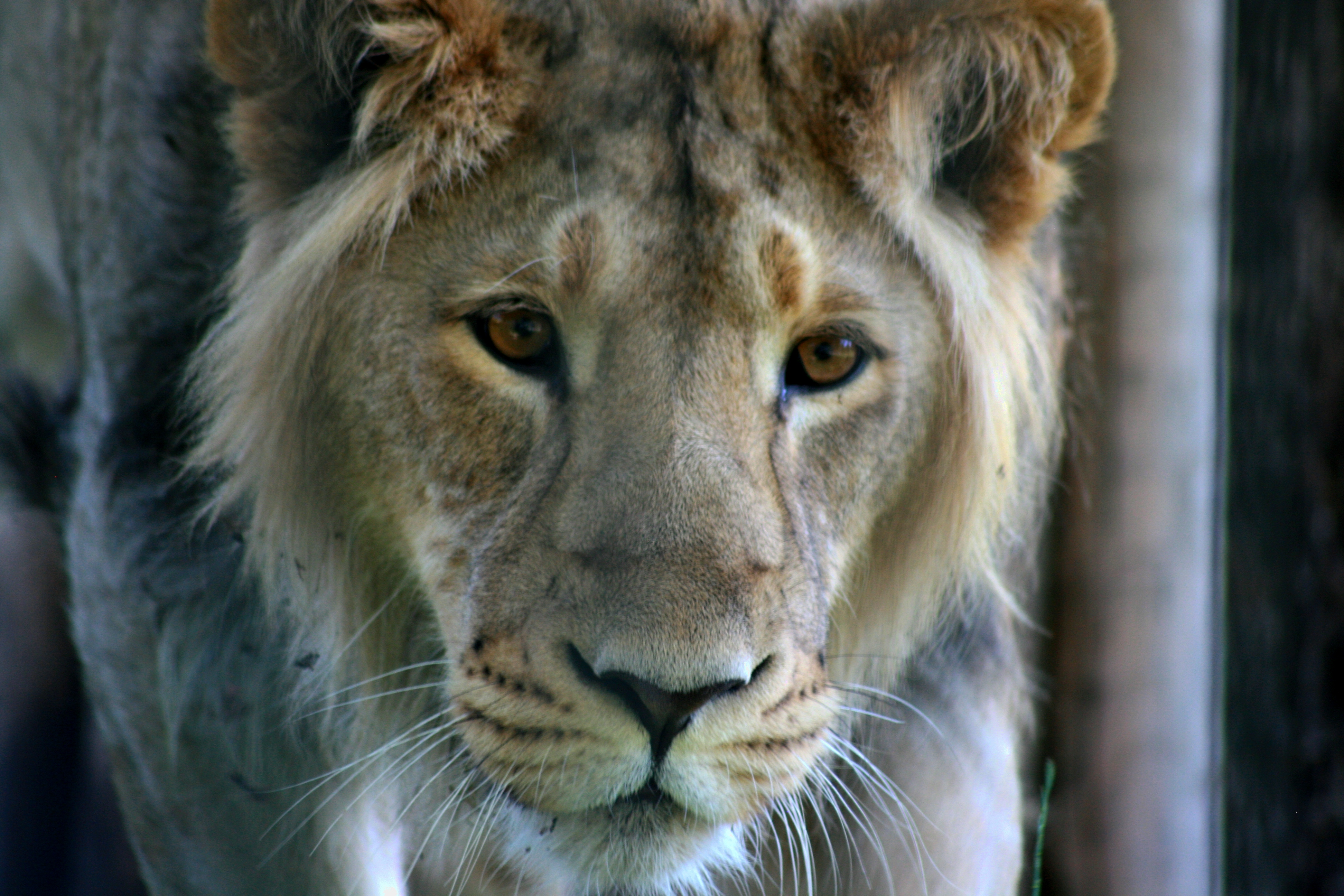 Picture of a adolescent Male Asiatic Lion, walking towards another much larger male (most likely his Father) in the enclosure.